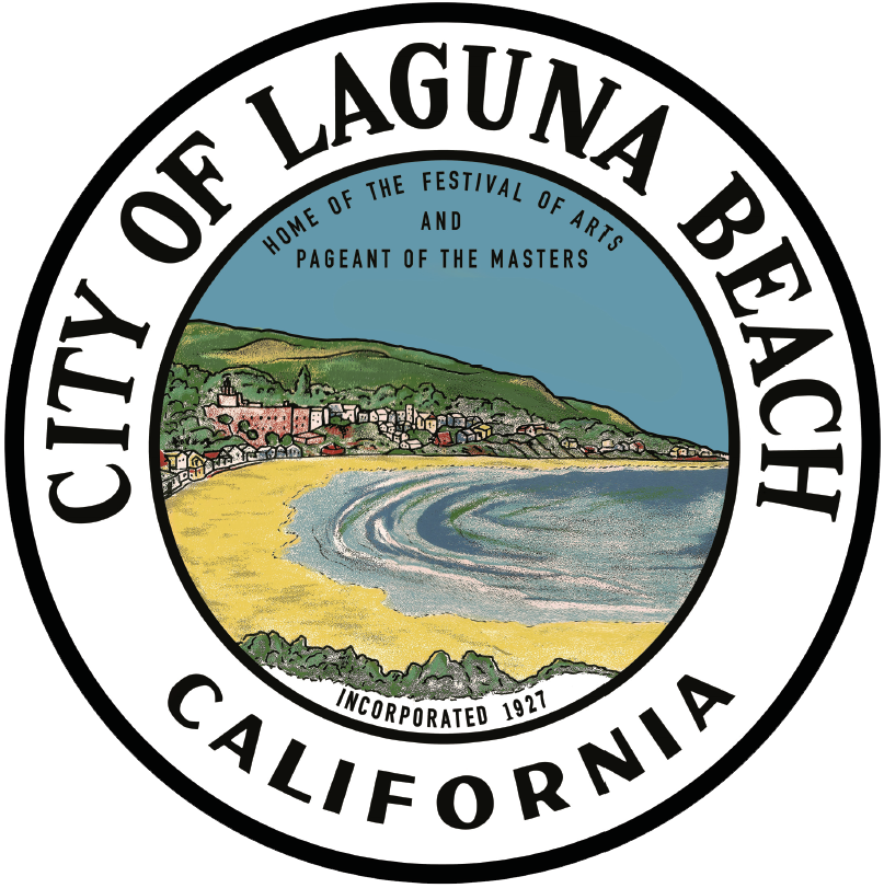 Seal of the city of Laguna Beach, California (golden version)